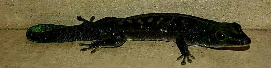 Phelsuma astriata showing extremely dark green colouration after being left in the dark for a short period of time. Praslin, Seychelles. Photo taken by Cheryl Allen.